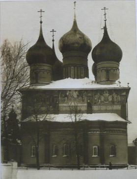 Assumption Cathedral in Yaroslavl